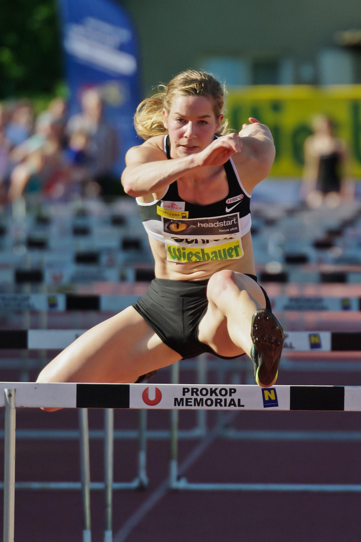 Austrian hurdle runner Beate Schrott at the Liese-Prokop-Memorial 2012 in St. Pölten.